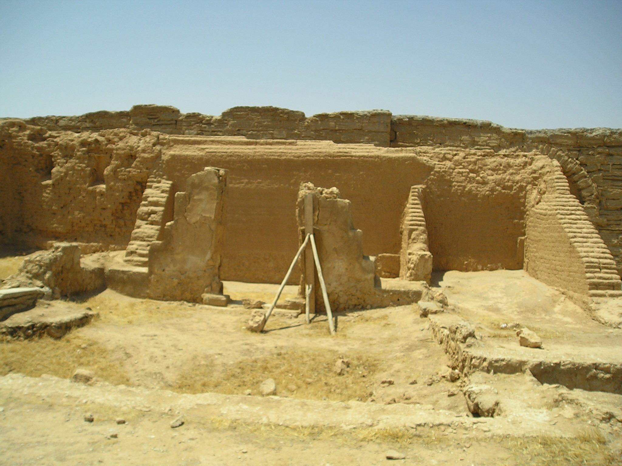 Dura - Europos, Syria - remains of the christian church with the western wall recently restored